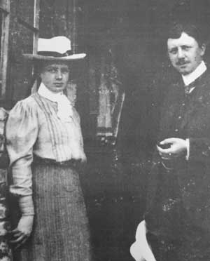 The painter Oskar Moll (1875-1947) with his wife Margareta